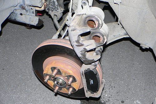 Twin-pot disc brake calliper(Twin-pot front disc brake calliper from a JDM 1996 Subaru Legacy GT)